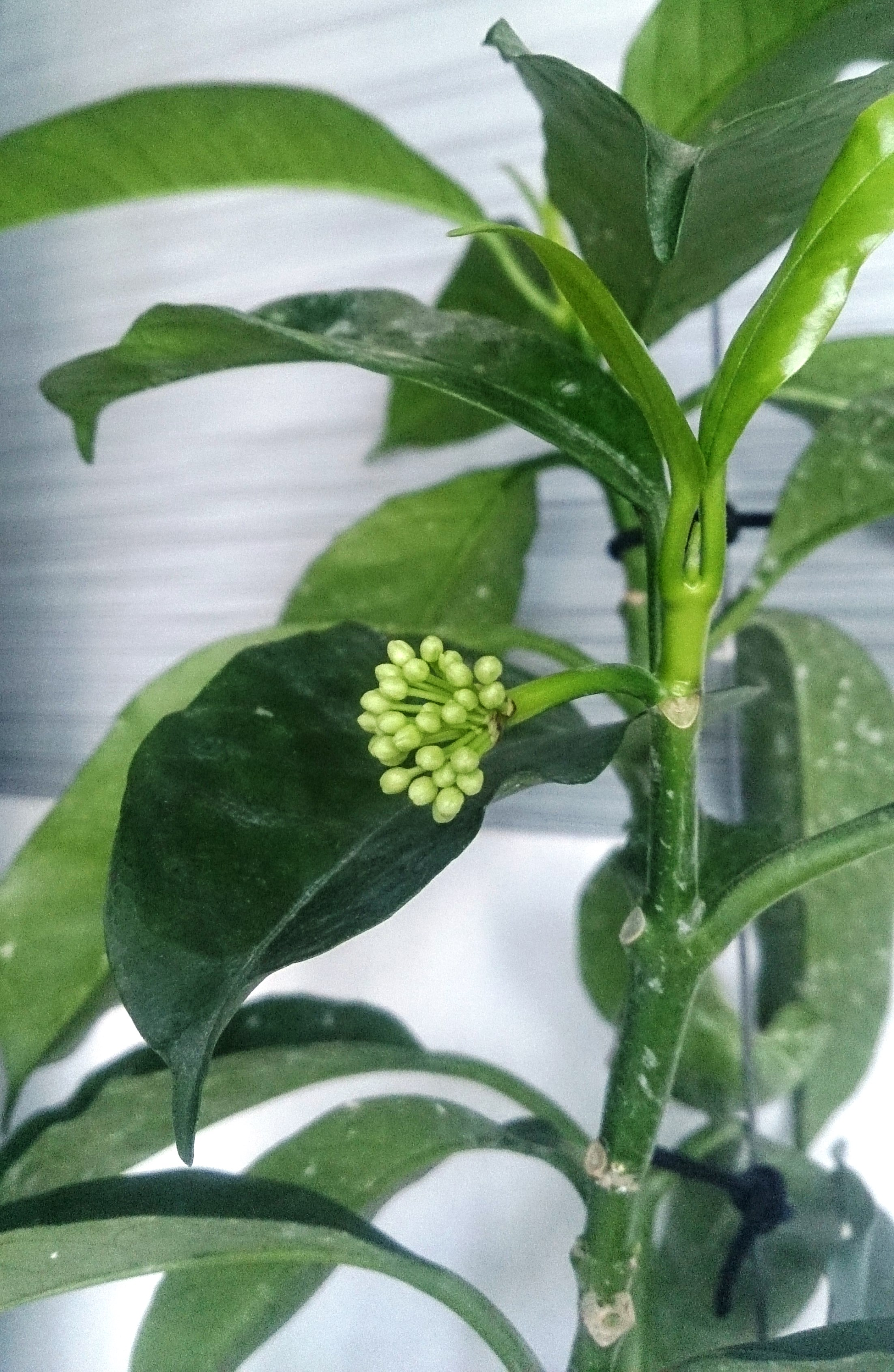 Hoya multiflora. Common names: Shooting Stars Hoya, Wax Plant, Porcelain Flower.